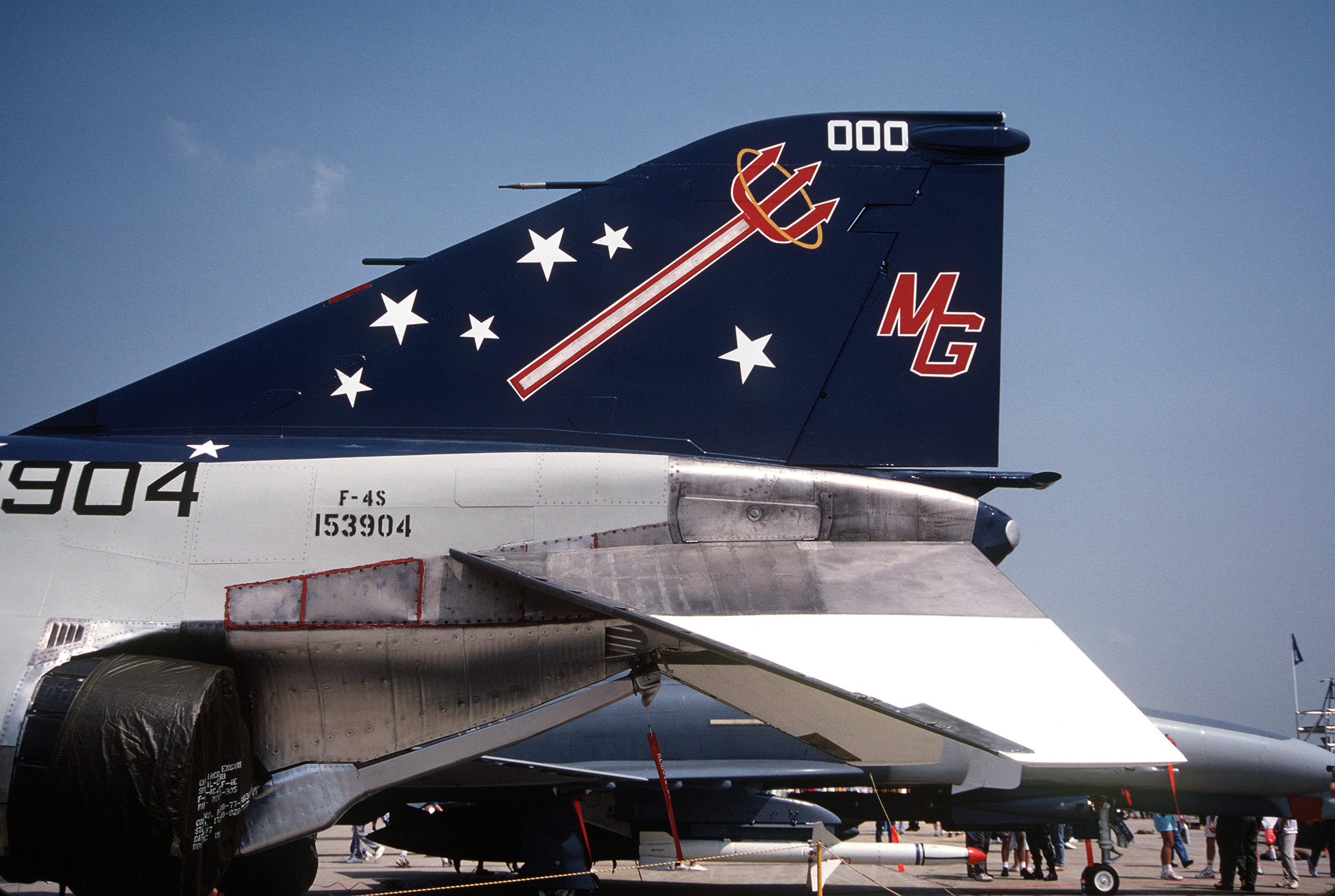 A U.S. Marine Corps Reserve McDonnell Douglas F-4S Phantom II aircraft (BuNo 153904) of Marine Fighter Attack Squadron VMFA-321 Hell’s Angels, 4th Marine Aircraft Wing (4th MAW), on display at the 1991 Department of Defense Joint Services Open House at Andrews Air Force Base, Maryland (USA), on 10 May 1991. After its retirement the F-4S 153904 was acquired by Aviation Museum of Kentucky.